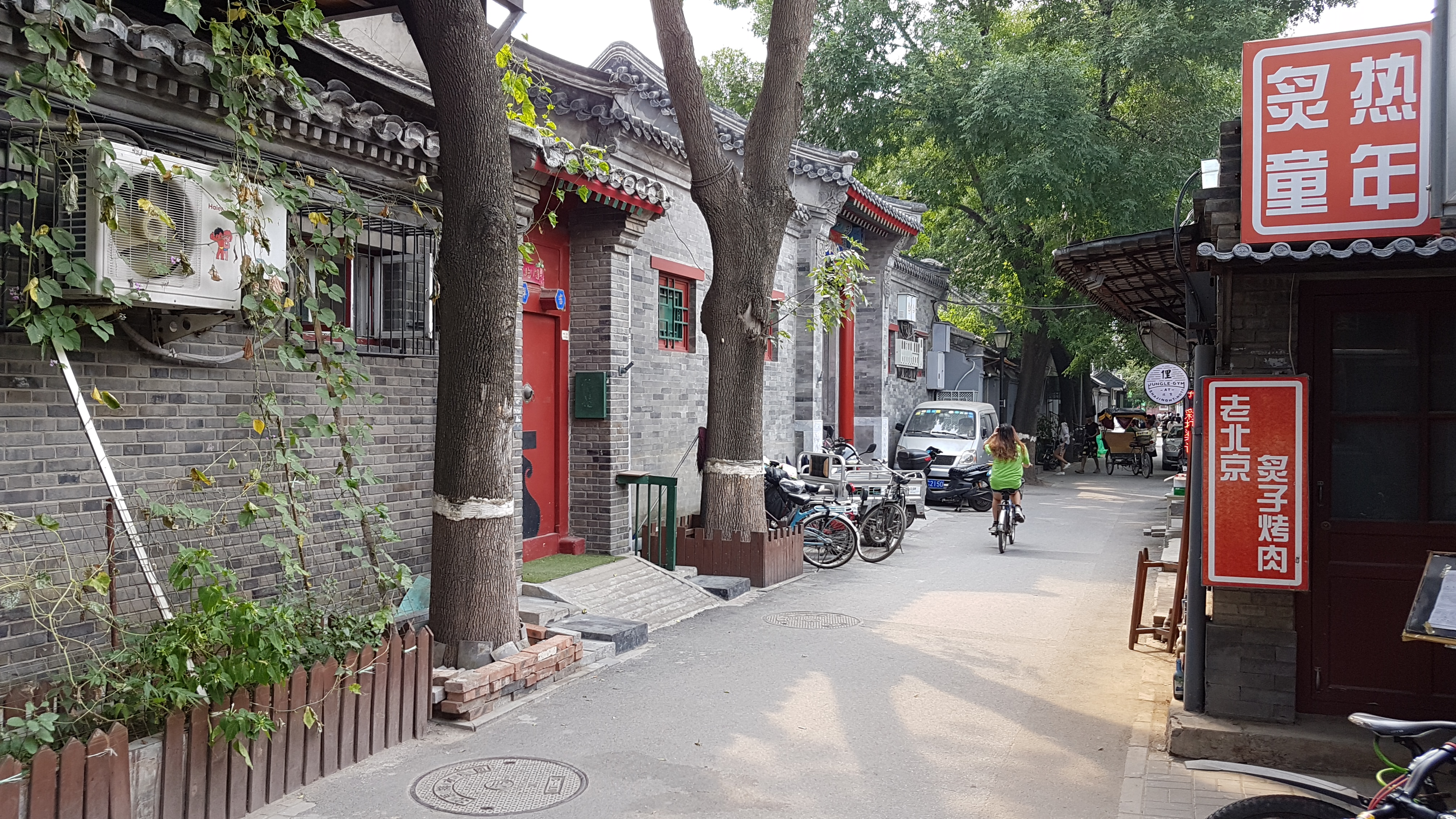 Nanluoguxiang; Hutong District in Beijing, China